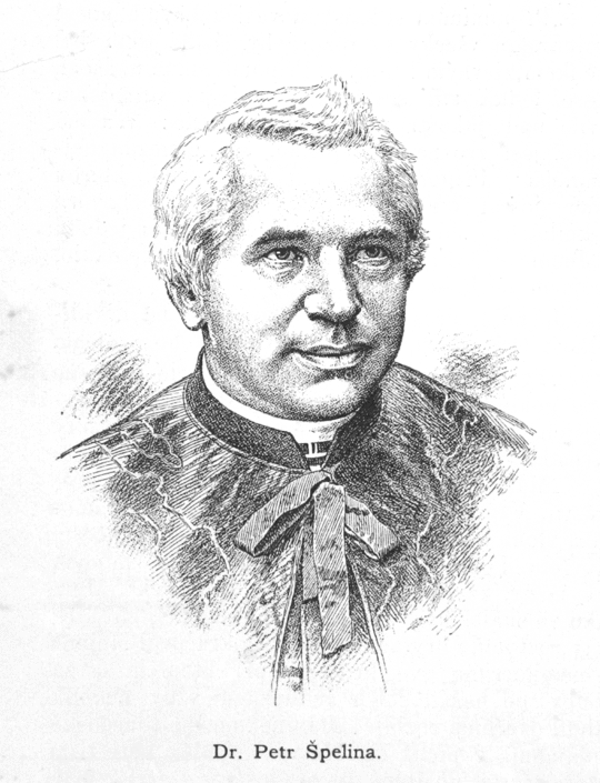 Portrait of Petr Špelina (1830-1897), Czech Catholic priest and politician